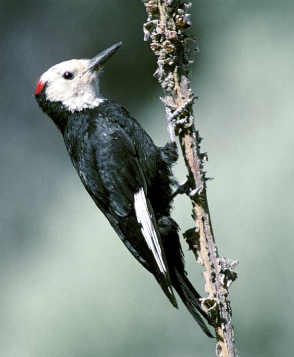 White-headed woodpecker (Picoides albolarvatus), Deschutes National Forest